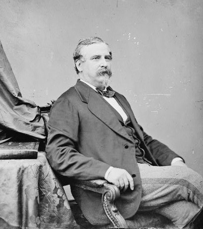 Francis Edwin Shober (1831 - 1896), a U.S. Representative from North Carolina